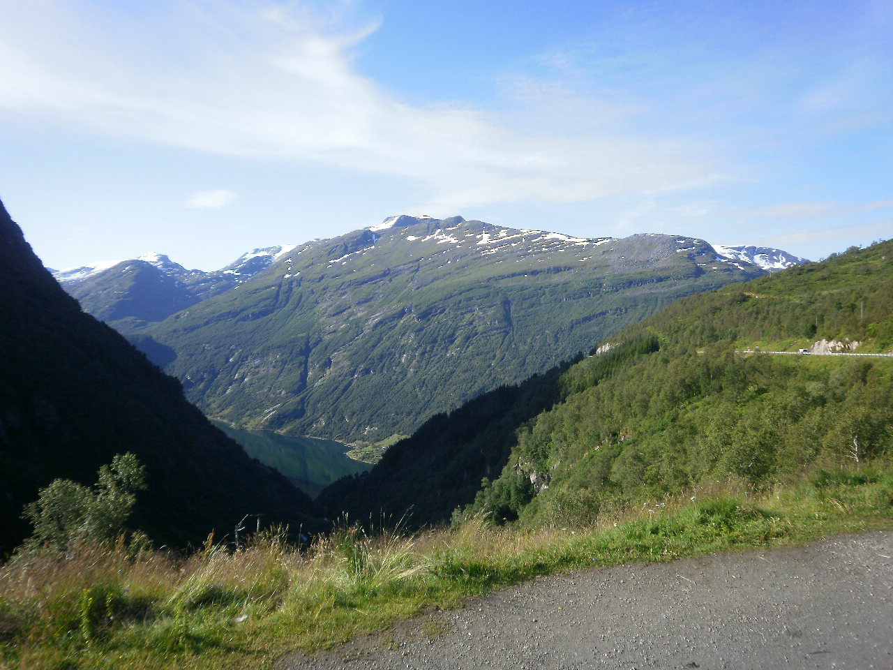 Mountains in Norway